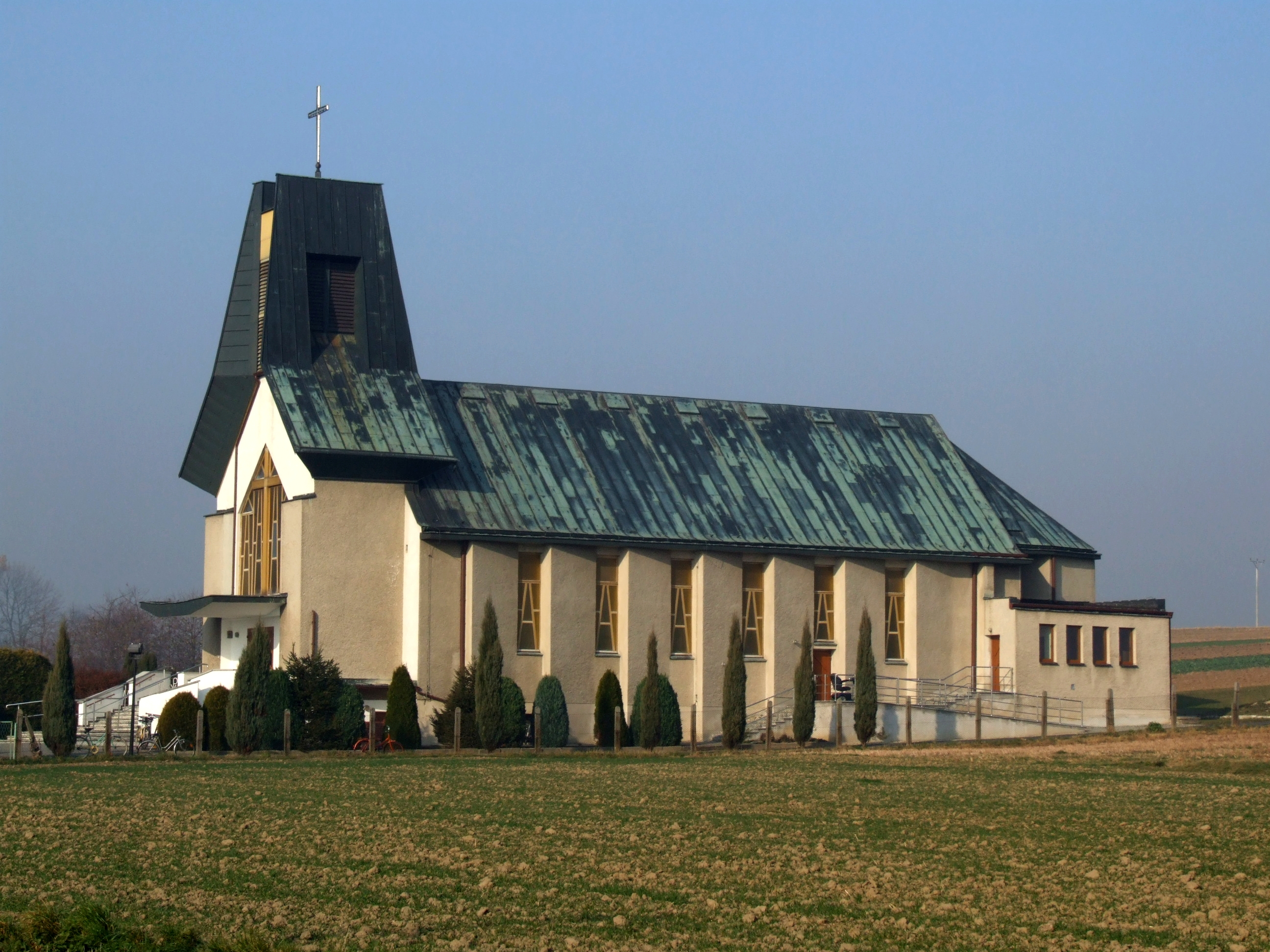 Sacred Heart church in Nieznaszyn, Poland